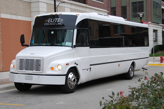 Contemporary party bus limo-style exteriors. Common m1035 Freightliner Chassis used for party bus conversions.